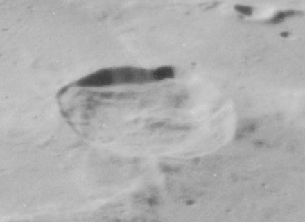 Oblique view of C. Mayer crater, facing northwest, on the moon.